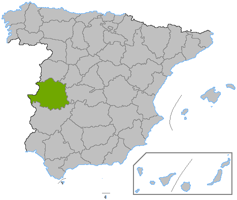 Location of the province of Cáceres, in Spain. Basado en: ProvPont.jpg Source: Designed by Satesclop. Original picture, designed by Sobreira.